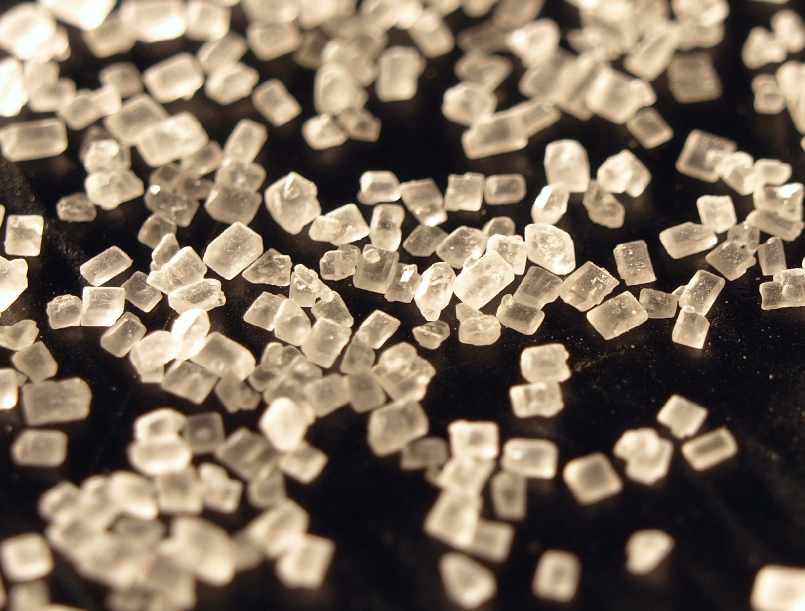 Close-up of sugar crystals